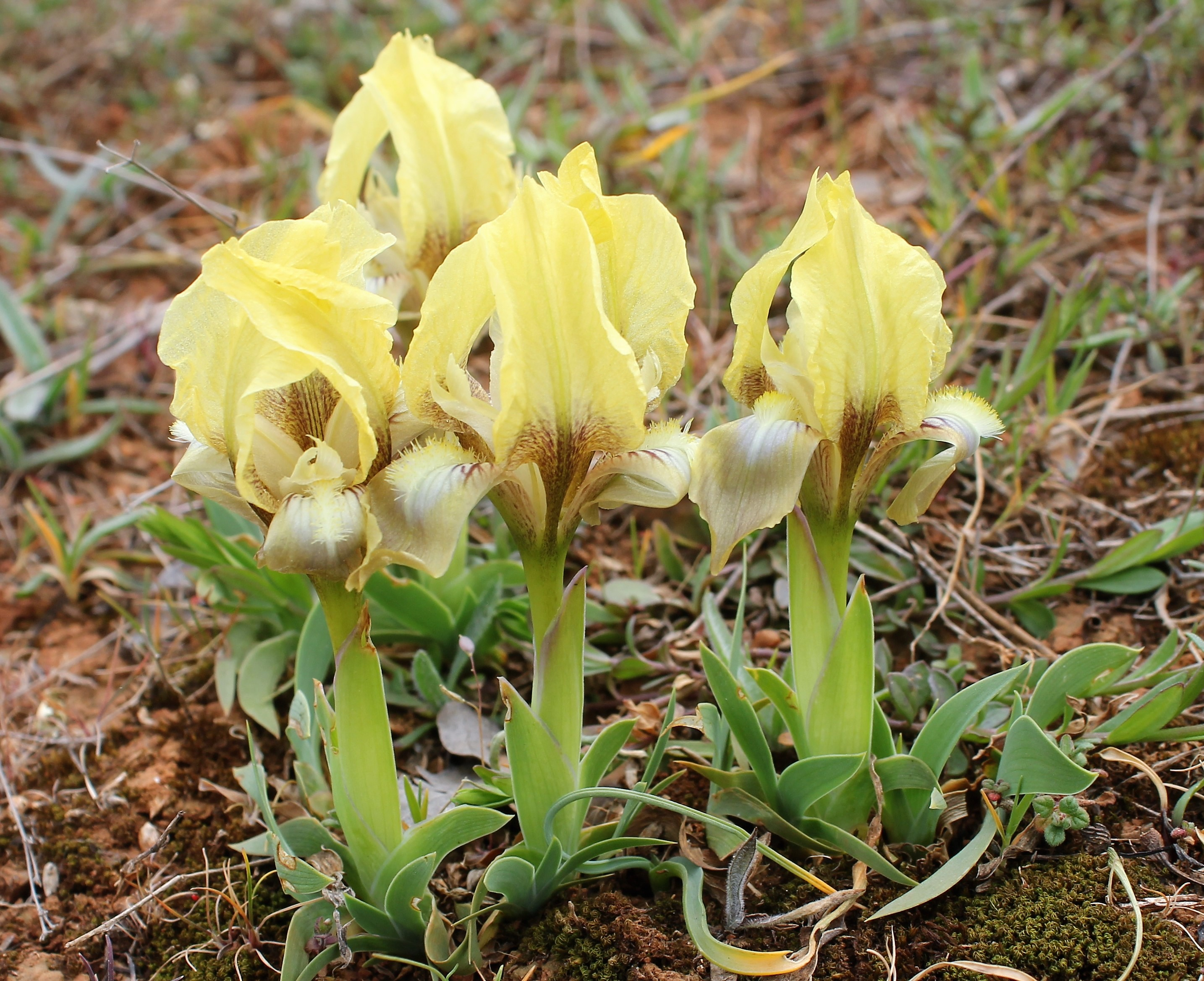 Iris suaveolens yellow